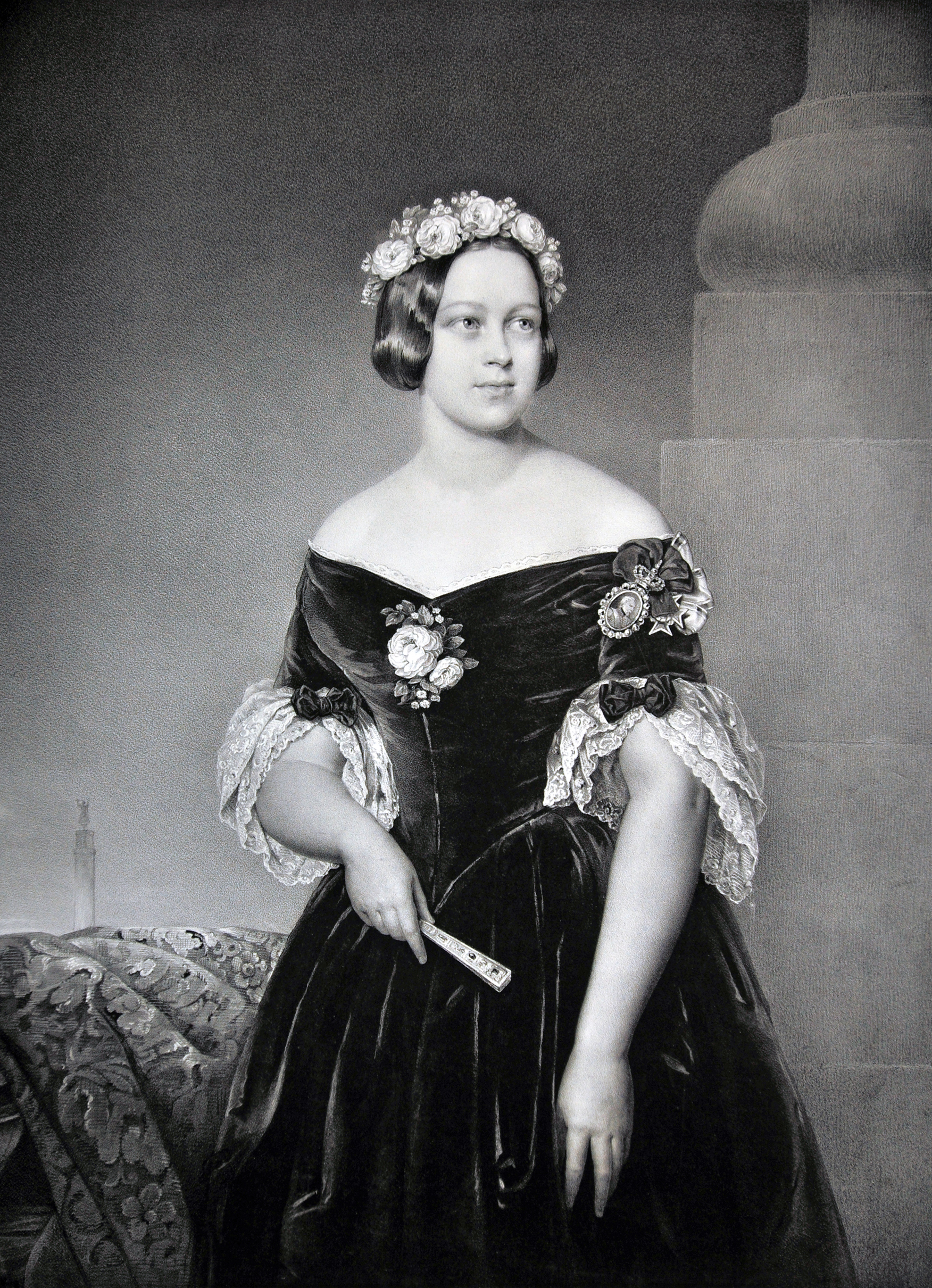 Princess Marie of Saxe-Altenburg after her wedding with the Crown Prince of Hanover George V of Hanover on 18 February 1843 at Hanover. In the background stands the Waterloosäule by Hanover.